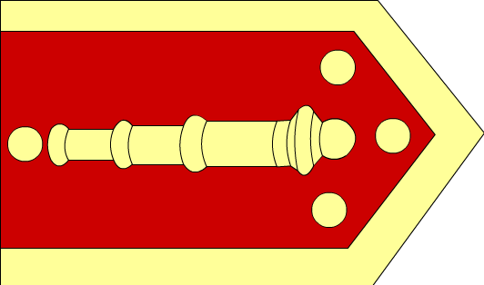 Artillery Flag of the Ottoman Empire.